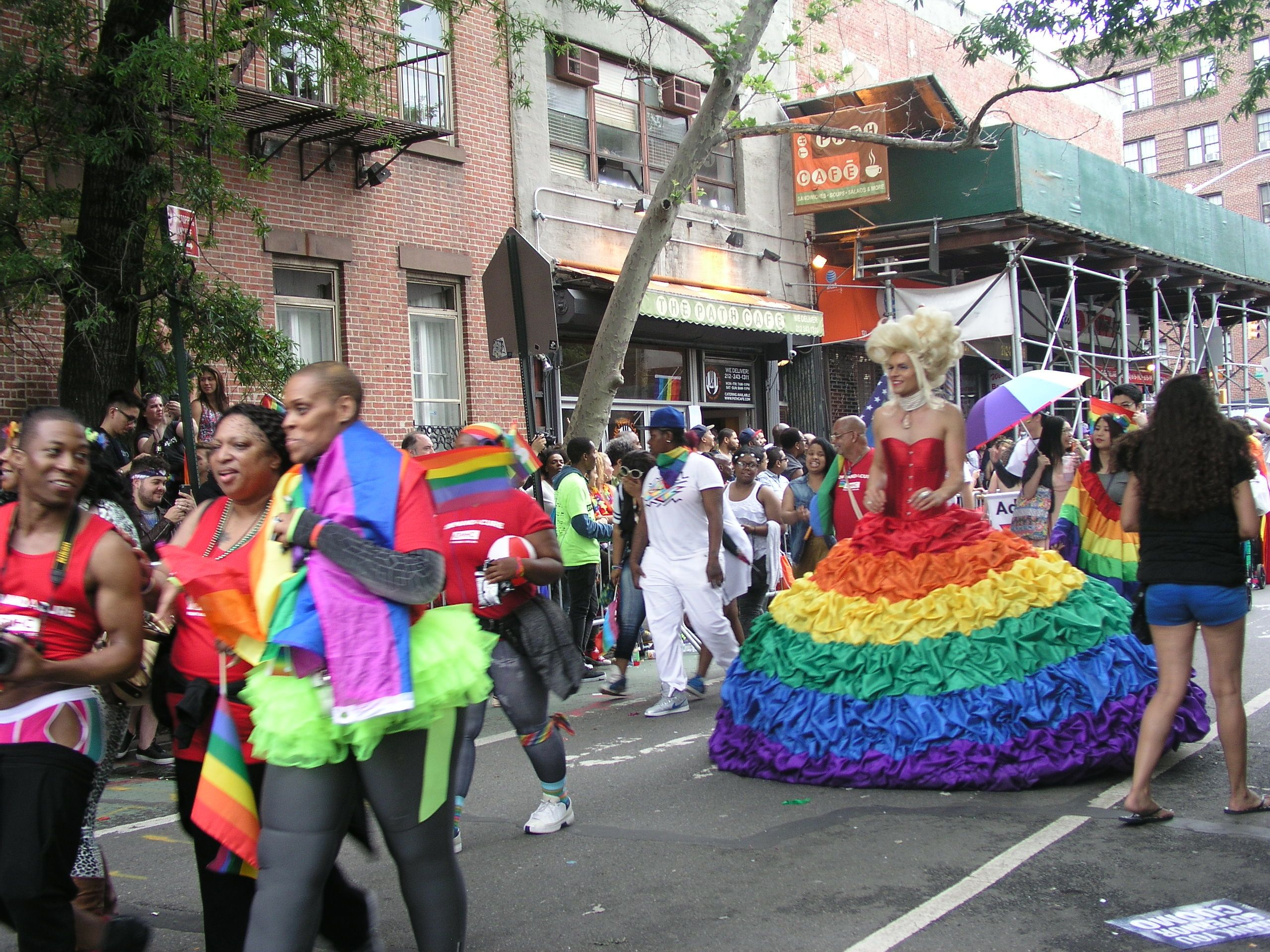 Pride Parade New York June 28, 2015